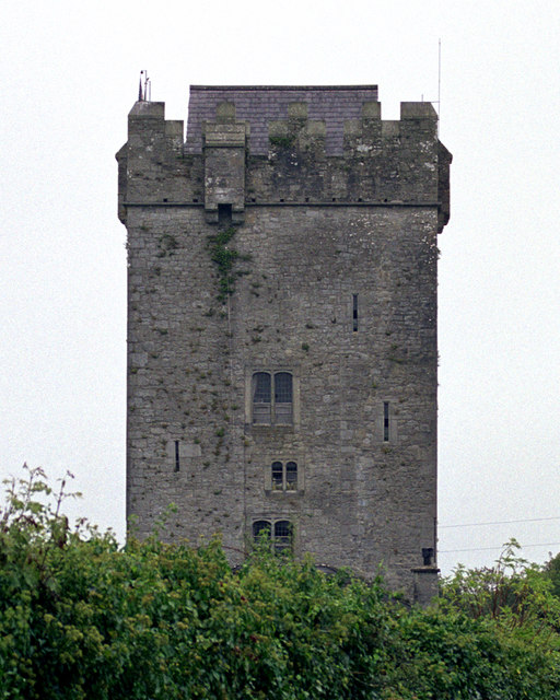 Castlefergus Castle in County Clare, Ireland. Also known as Ballyhannon Castle, this restored tower stands on the northern banks of Latoon Creek. It is fully renovated and is available as a holiday rental.